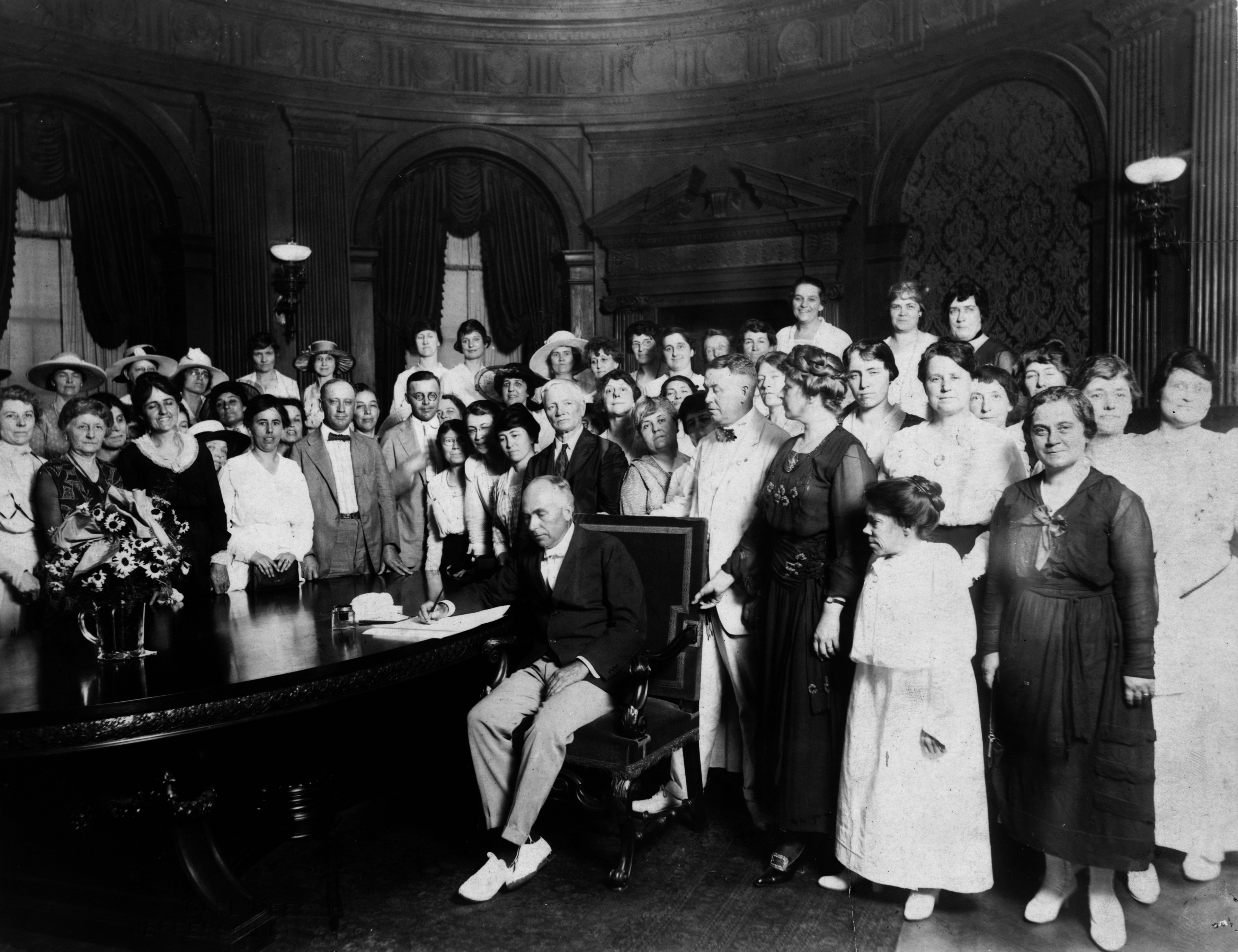 A large group, mostly women, standing around a table in the office of Missouri Governor Frederick Gardner as he signs the resolution ratifying the 19th constitutional amendment; Missouri became the 11th state to ratify the "Anthony Amendment."